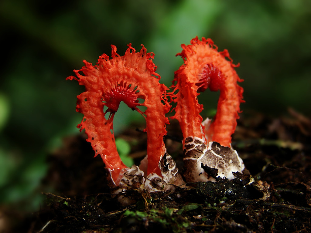 The fungus Laternea triscapa Turpin. Specimen photographed in Reserva Rio Macho, camino a Belen, Navarro, Cartago, Costa Rica.